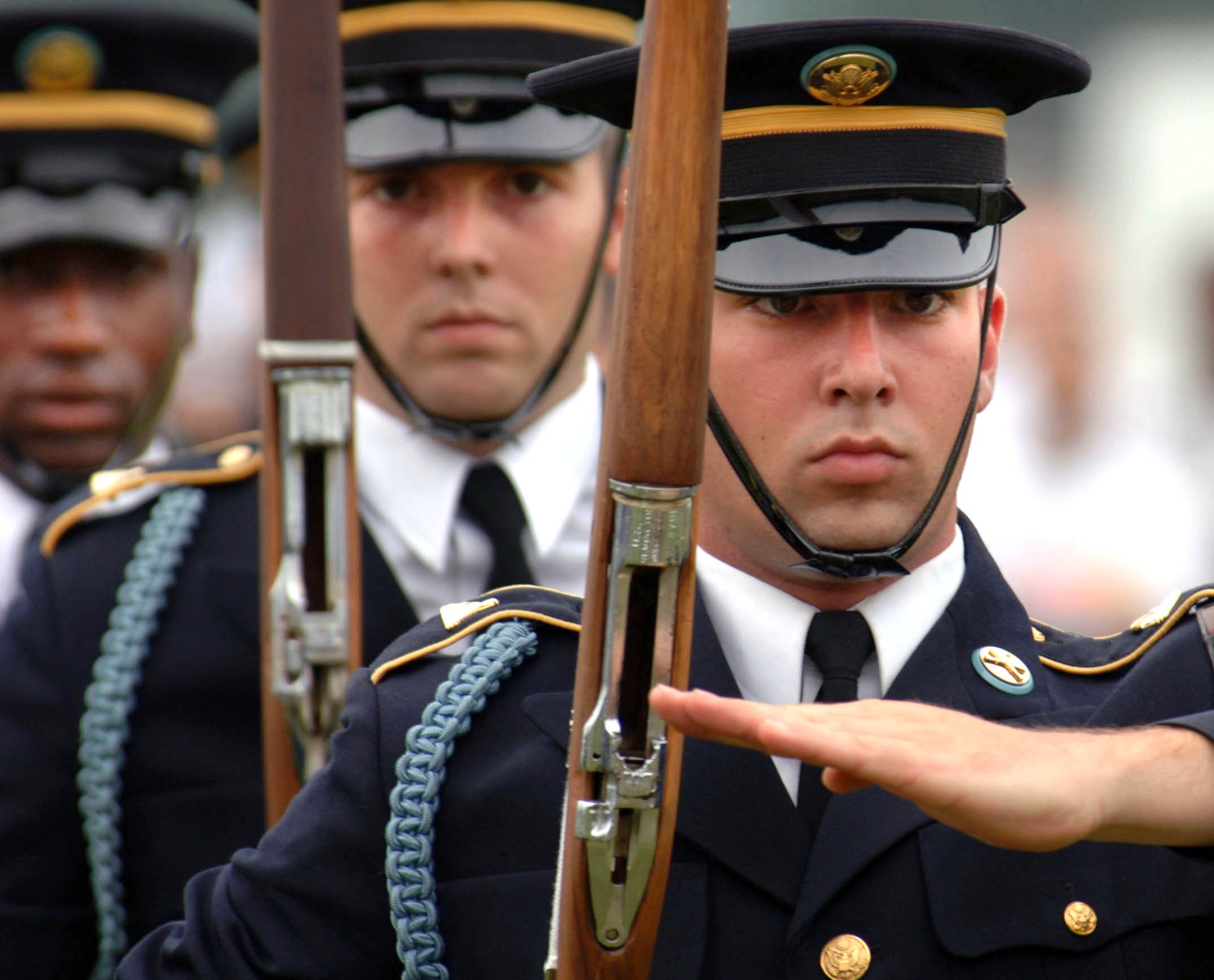 The 3rd U.S. Infantry’s U.S. Army Drill Team executes precision drill movements during a festival at Fort Eustis, Va. This photo appeared on ID: CSA-2006-08-17-094259